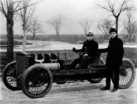 Henry Ford, standing, and Barney Oldfield in 1902, with the "999" racing automobile.